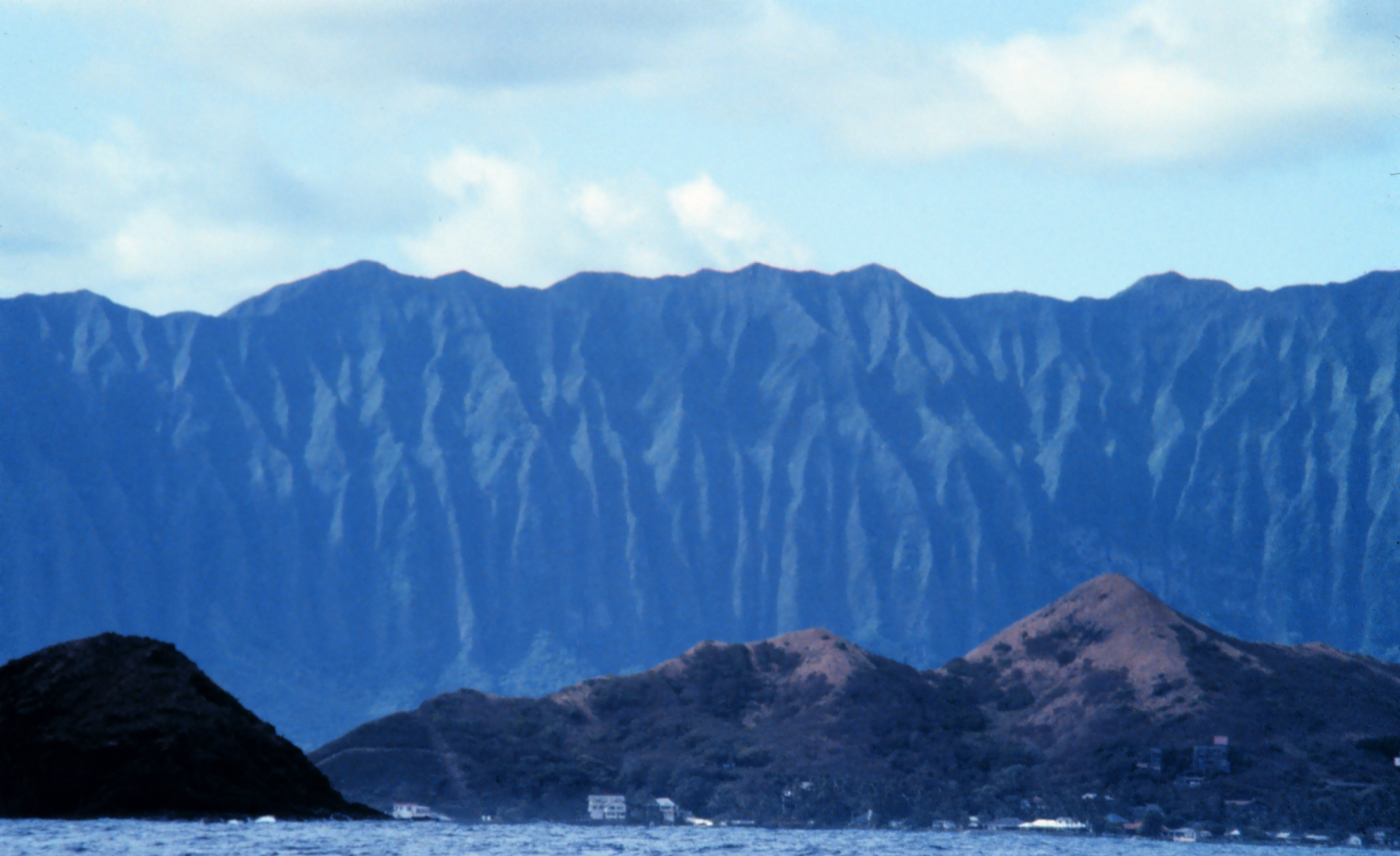 NOAA photo of Koolau Range, or possibly Lanikai, Oahu, Hawaii. Image ID: line0151, America's Coastlines Collection